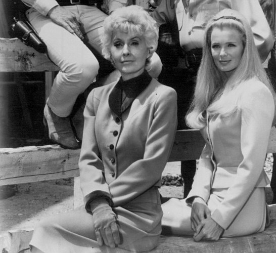 Crop of cast photo from the television Western The Big Valley. Barbara Stanwyck, Linda Evans.